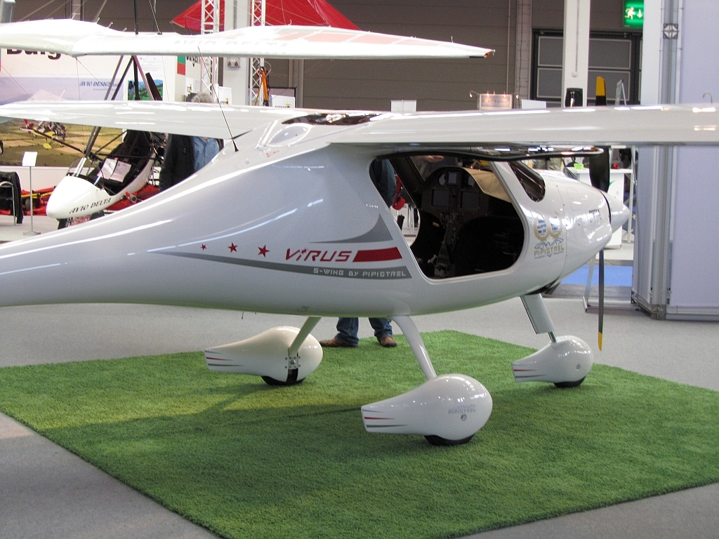 Ultralight aircraft Pipistrel Virus